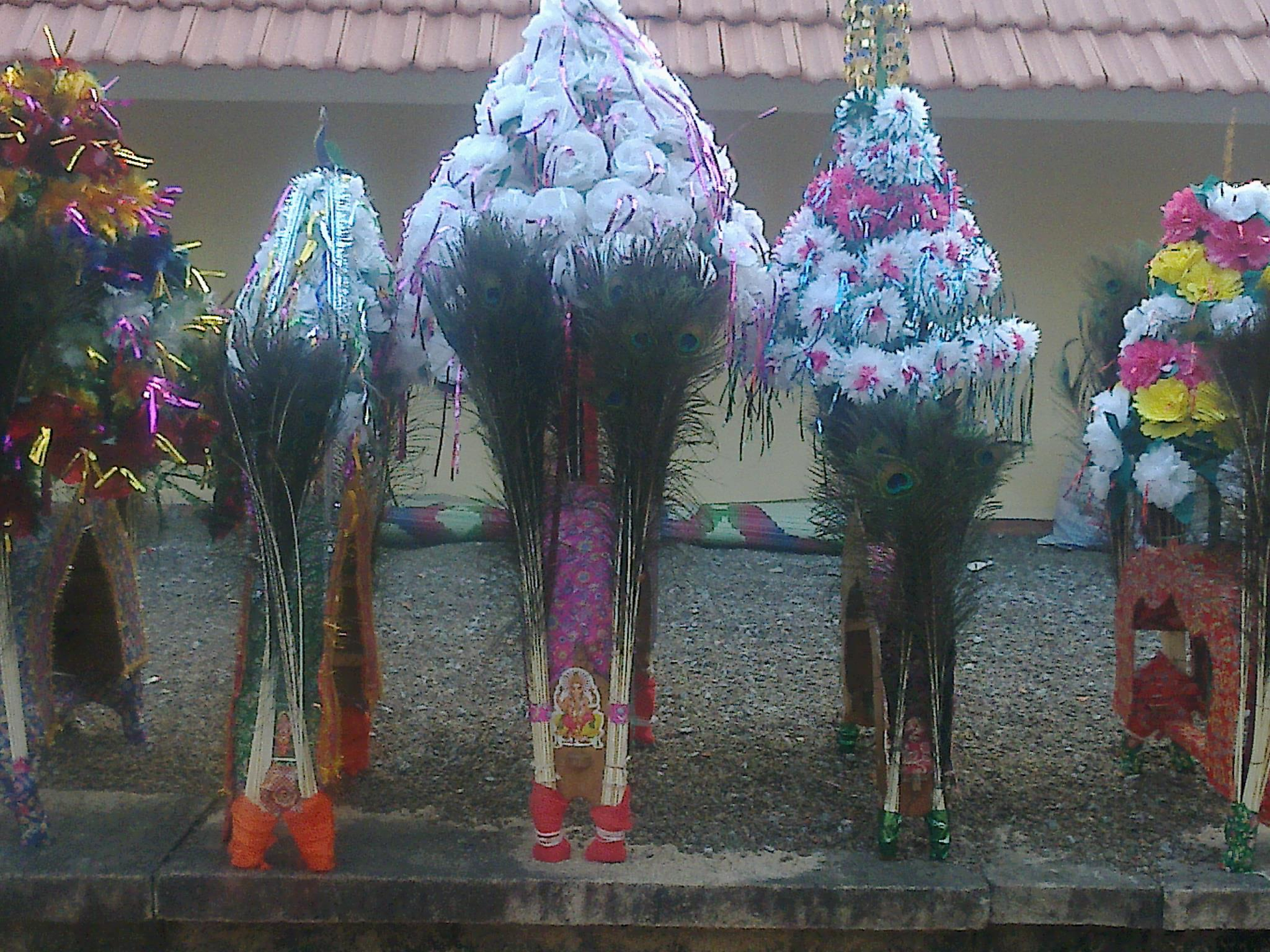 Kavadi at Cheriyand Balasubramanya Temple